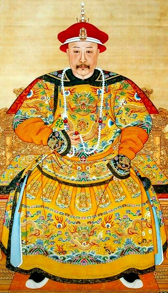 The Jiaqing Emperor of China.